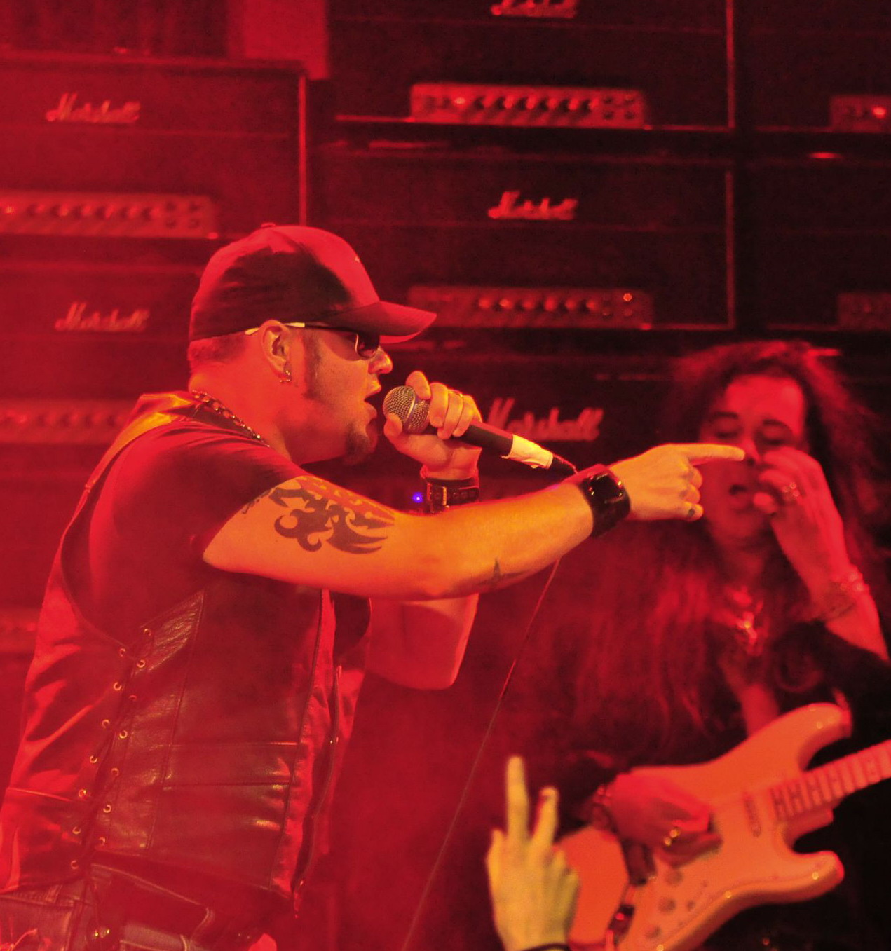 Tim "Ripper" Owens during Yngwie Malmsteen' concert